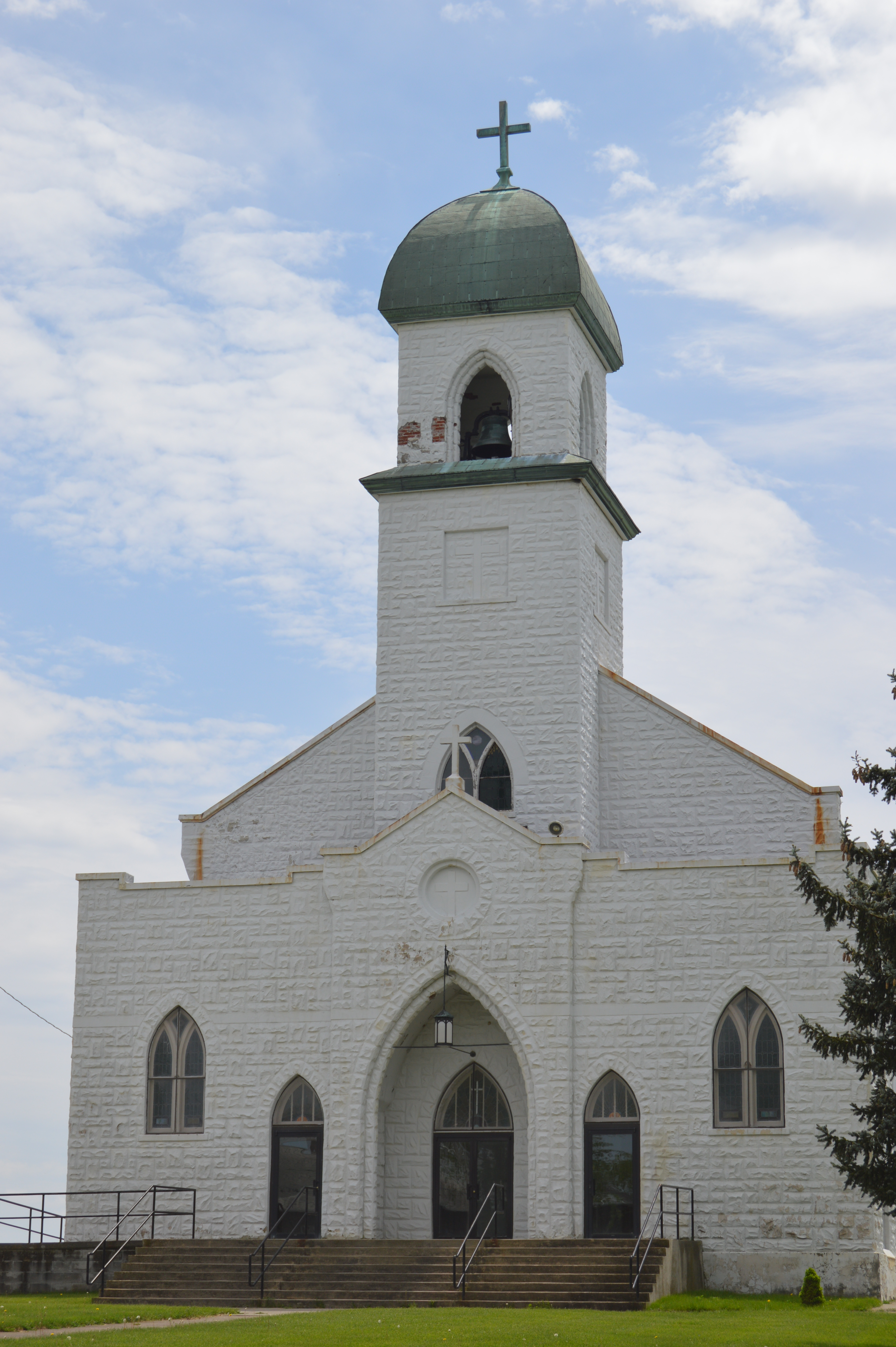 Front of St. Sebastian's Catholic Church, located at the crossroads of Bismarck in Sherman Township, Huron County, Ohio, United States. As can be seen on the left side of the tower, it is a brick building merely faced with concrete. The church was built in 1847 and significantly modified in 1950.